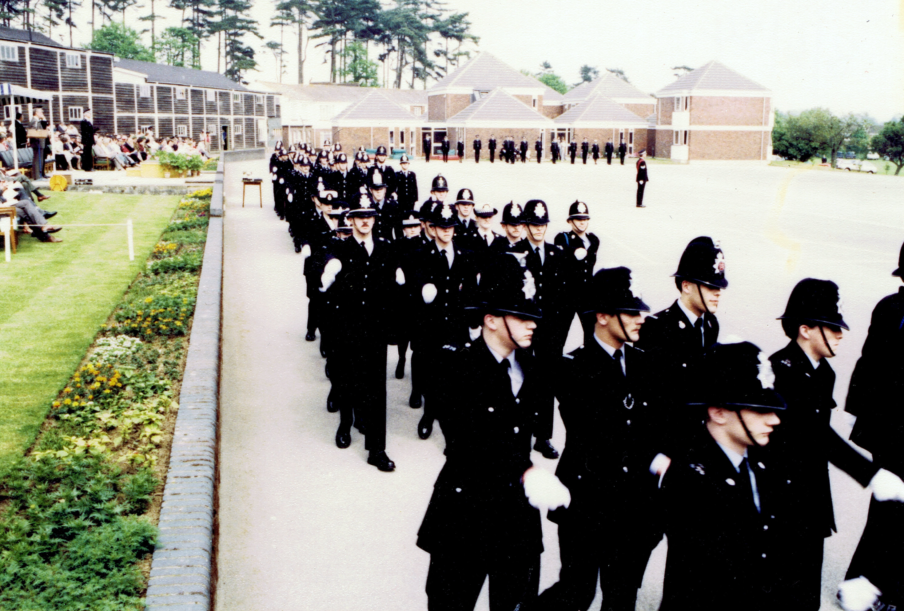 A typical passing out parade at Asford PTC in the 1980s